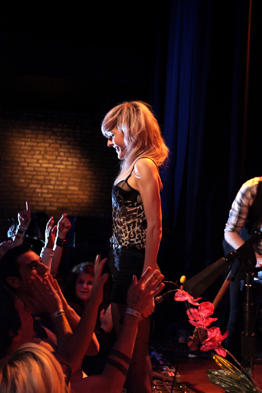 Goulding performing at Lincoln Hall, Chicago